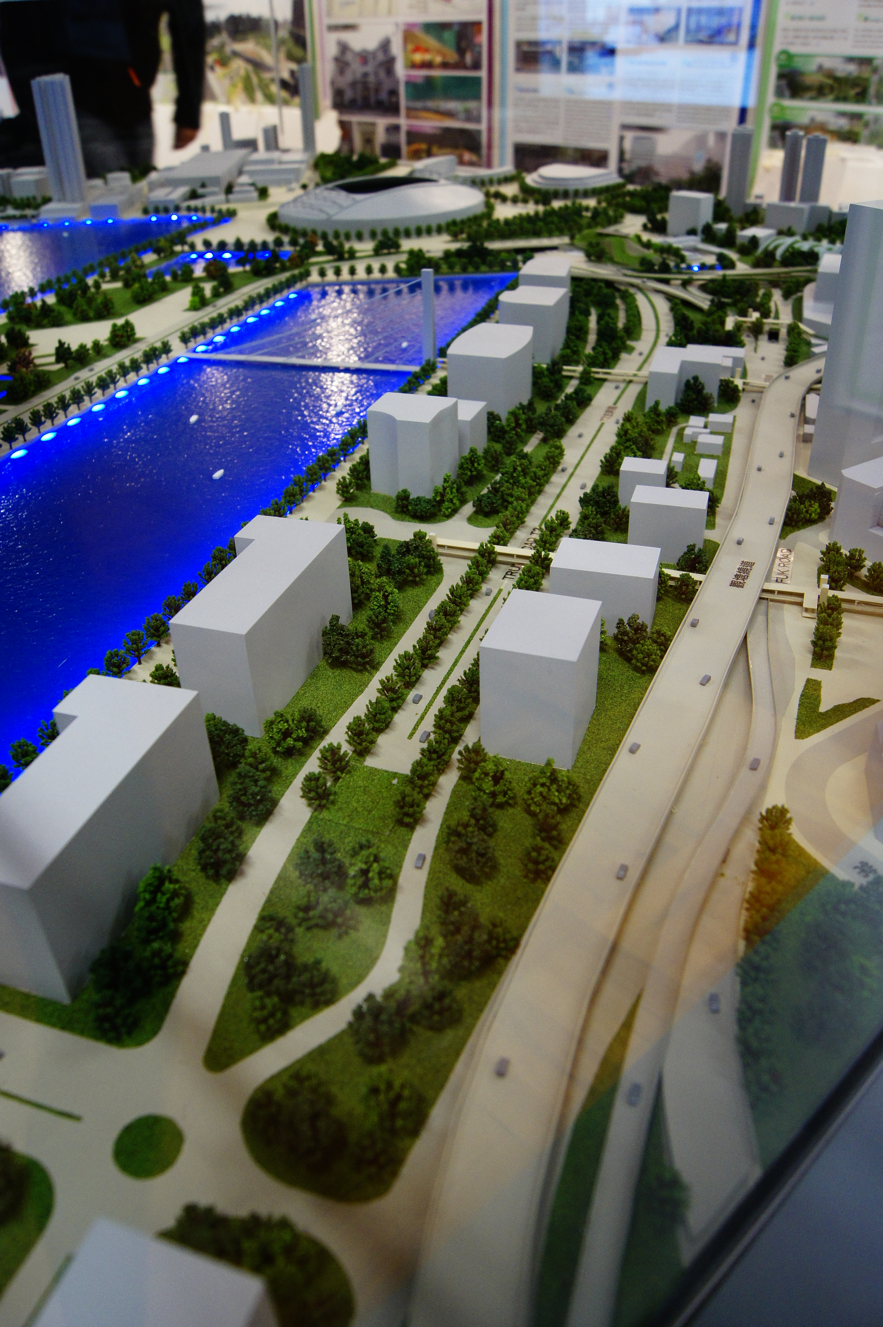 Kai Tak Trunk Road T2 illustration